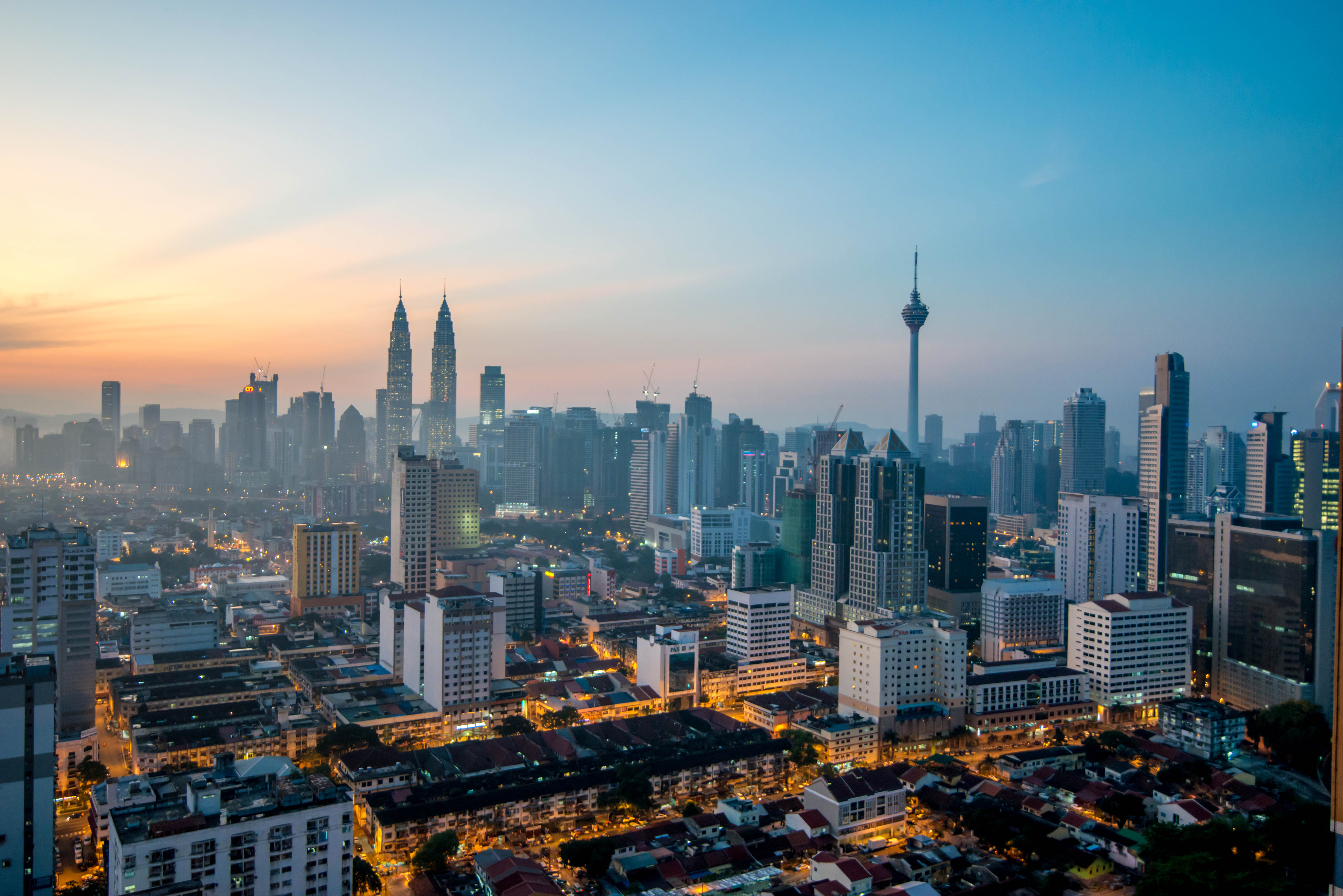 Kuala Lumpur is the national capital and most populous city in Malaysia. The city covers an area of 243 km2 and has an estimated population of 1.6 million as of 2010. Greater Kuala Lumpur, covering similar area as the Klang Valley, is an urban agglomeration of 7.5 million people as of 2012. It is among the fastest growing metropolitan regions in South-East Asia, in terms of population and economy. Kuala Lumpur is the seat of the Parliament of Malaysia. The city was once home to the executive and judicial branches of the federal government, but they were moved to Putrajaya in early 1999. Some sections of the judiciary still remain in the capital city of Kuala Lumpur. The official residence of the Malaysian King, the Istana Negara, is also situated in Kuala Lumpur. Rated as an alpha world city, Kuala Lumpur is the cultural, financial and economic centre of Malaysia due to its position as the capital as well as being a key city. Kuala Lumpur was ranked 48th among global cities by Foreign Policy's 2010 Global Cities Index and was ranked 67th among global cities for economic and social innovation by the 2thinknow Innovation Cities Index in 2010. Since the 1990s, the city has played host to many international sporting, political and cultural events including the 1998 Commonwealth Games and the Formula One Grand Prix. In addition, Kuala Lumpur is home to the tallest twin buildings in the world, the Petronas Twin Towers, which have become an iconic symbol of Malaysia's futuristic development